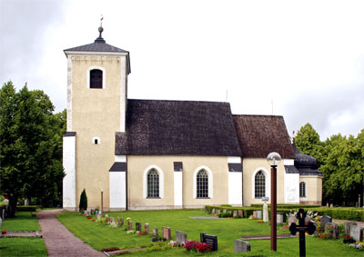 Lenaa church, Uppland, Sweden